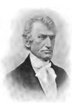 Portrait of 19th century North Carolina judge and politician Thomas Ruffin